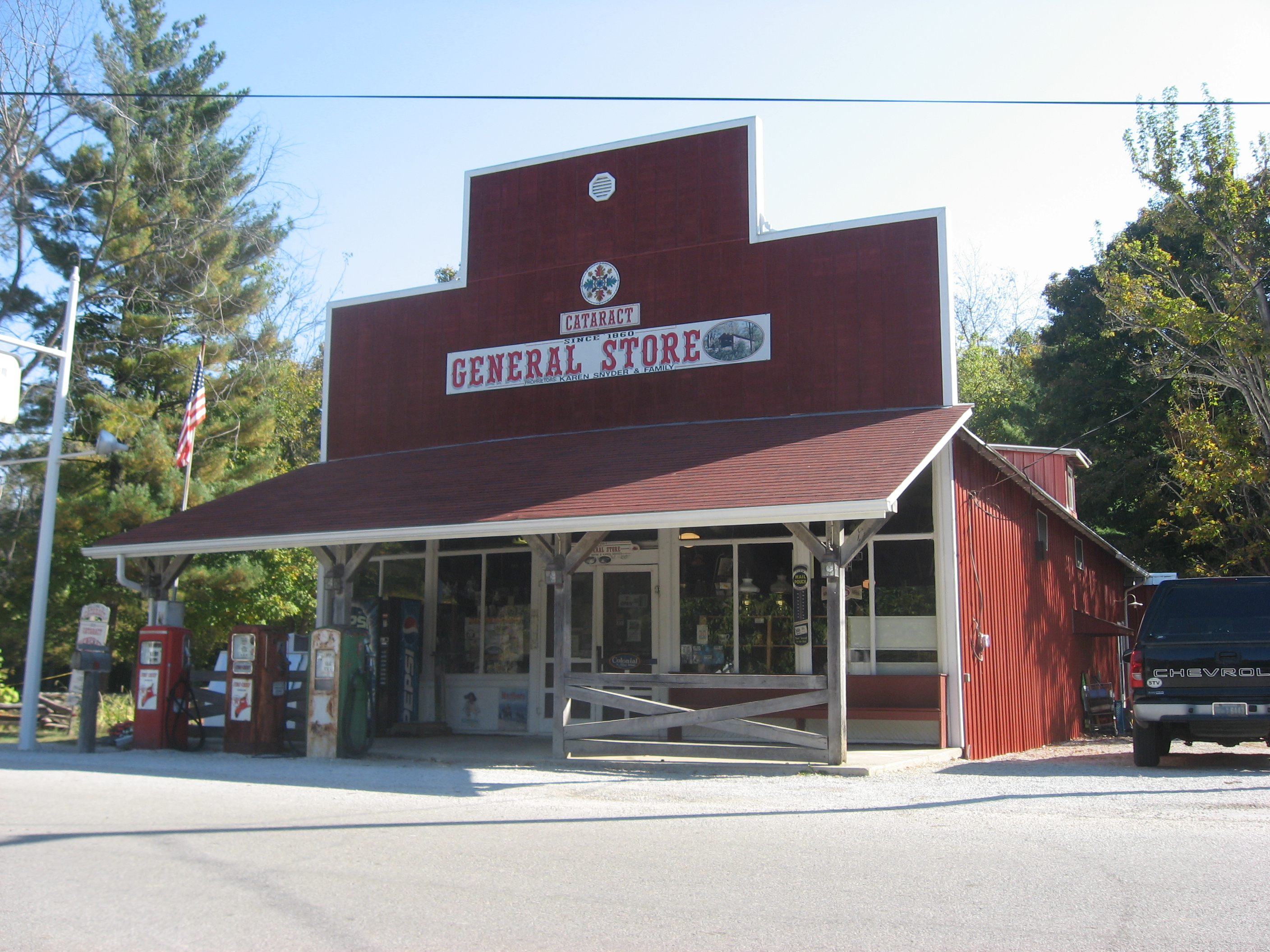 Front of the Cataract General Store, located along the main street of Cataract in Jennings Township, Owen County, Indiana, United States.